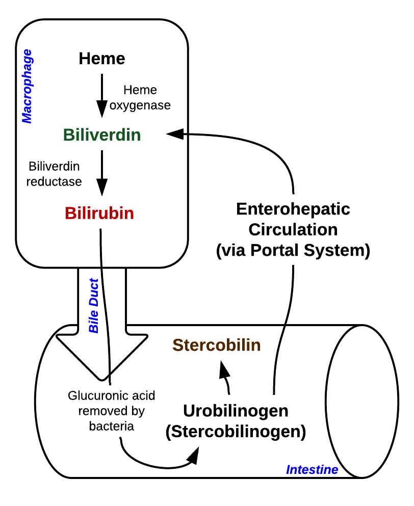 Breakdown of Heme in macrophages and intestine